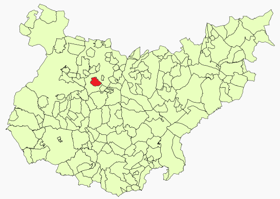 Arroyo de San Serván